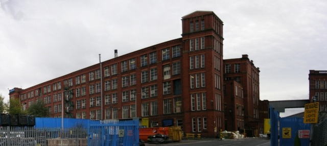 British Vita Factory, in Middleton, Greater Manchester, England. Housed in a former textile mill this factory was one of the first of those owned by British Vita, a company specialising in foamed synthetic polymers.